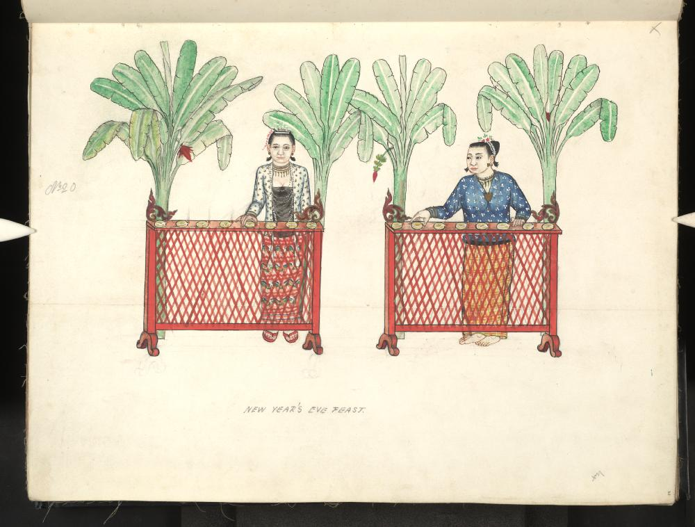 Watercolour painting by an unknown Burmese artist depicting 19th century Burmese life.